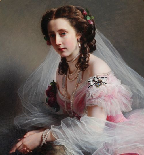 Anna of Prussia - Landgravine of Hesse